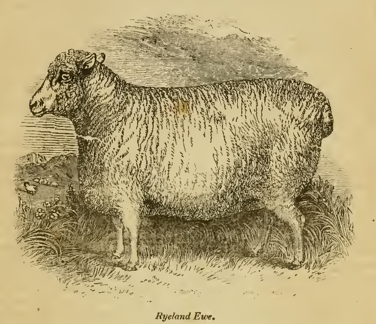 Illustration in a book in the series "Library of useful knowledge" [Farmer's series]